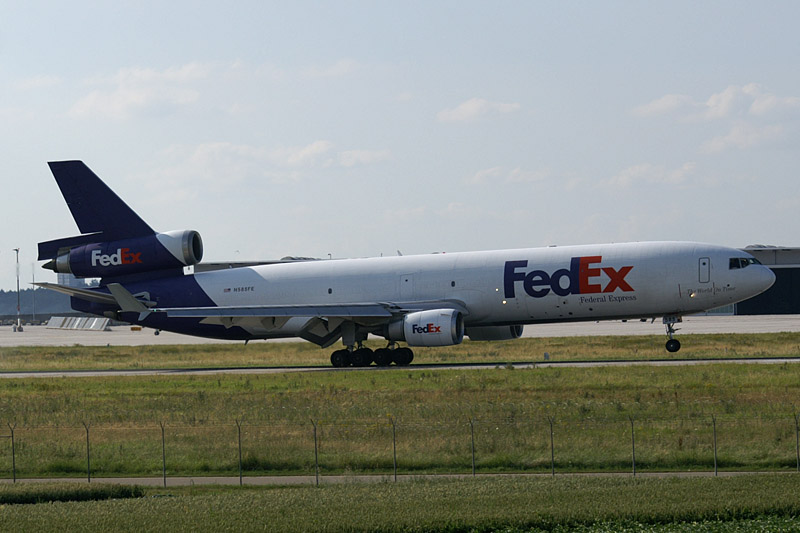 McDonnell Douglas MD-11F (N585FE) FedEx at Stuttgart Airport